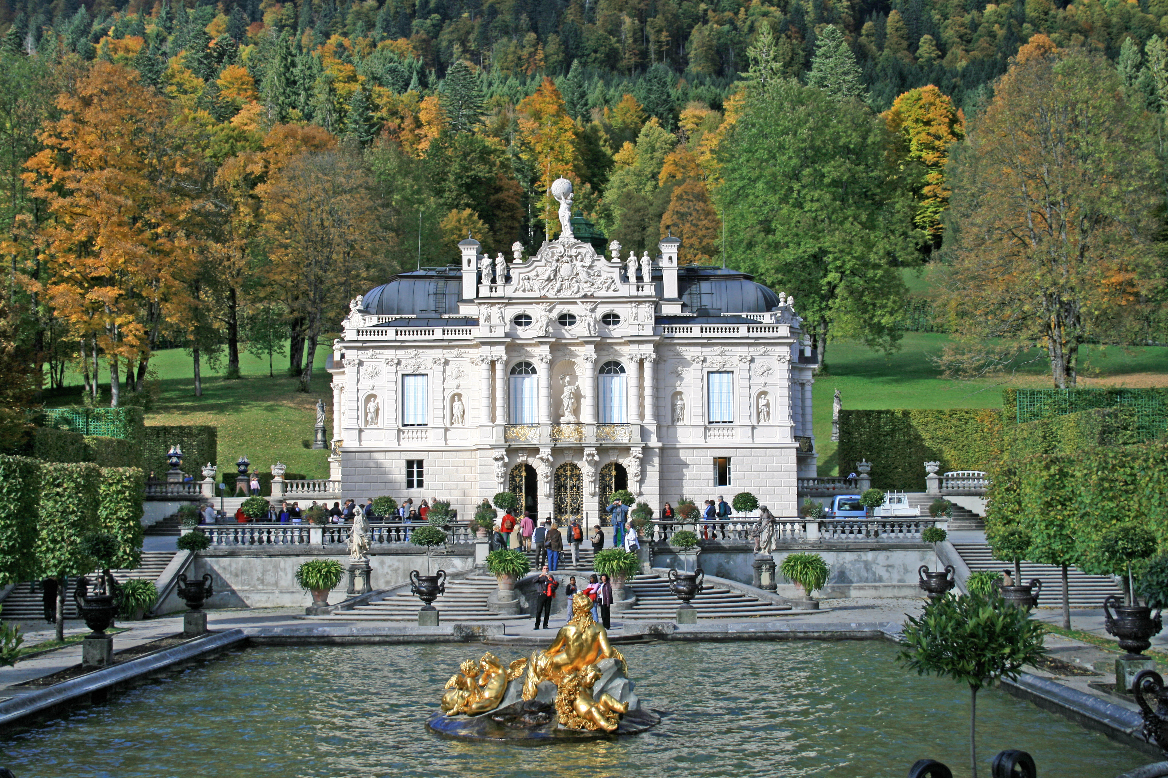 Linderhof Castle